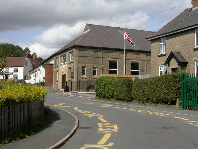 Part of Fisher Road, Bishop's Itchington, Warwickshire, with the Memorial Hall in the middle distance. A plaque records the hall's dedication "to the men of this village who gave their lives for their country" in two World Wars.